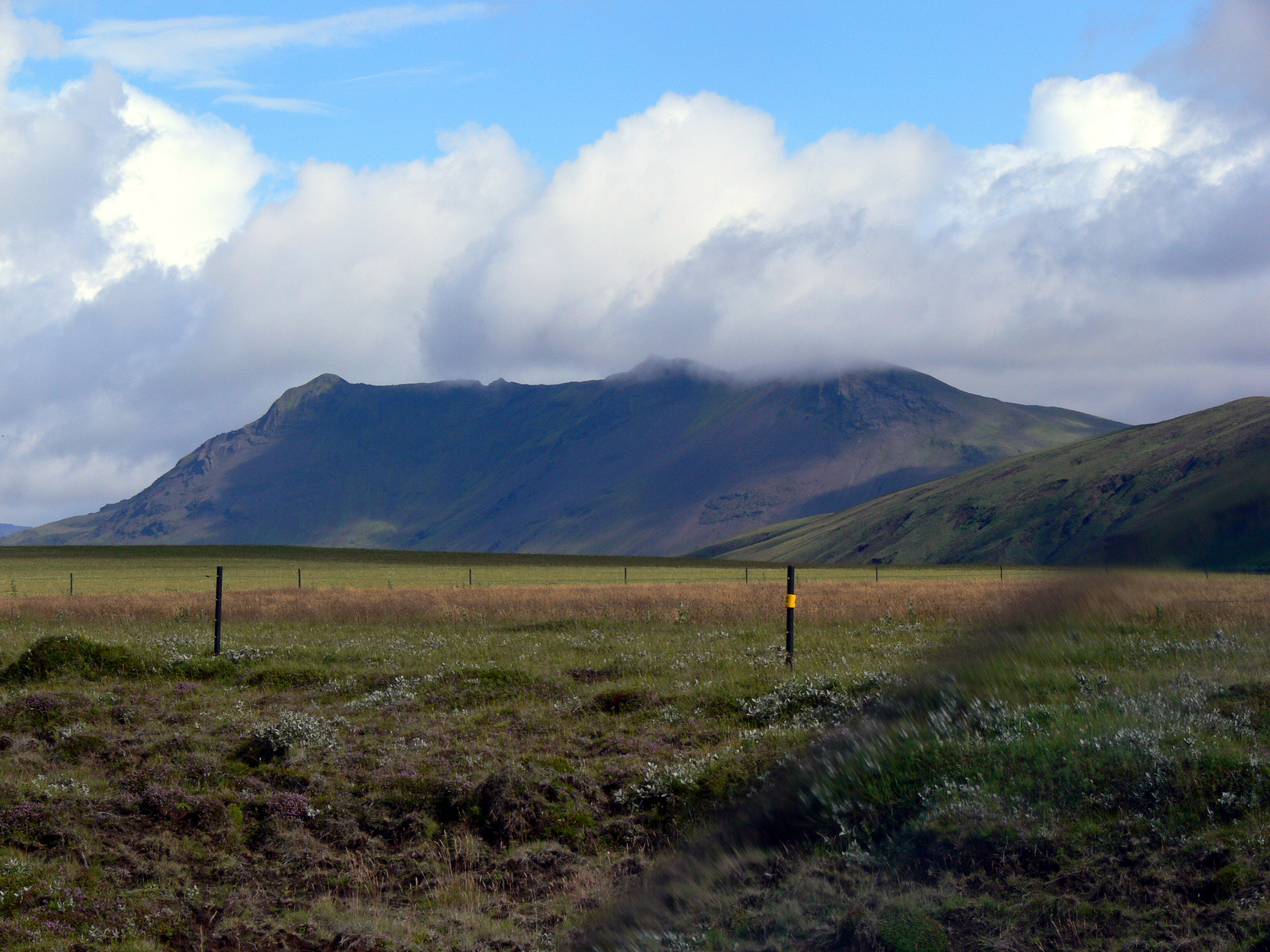 Mount Þríhyrningur situated southeast of Keldur, Iceland, plays a role in Njálssaga.